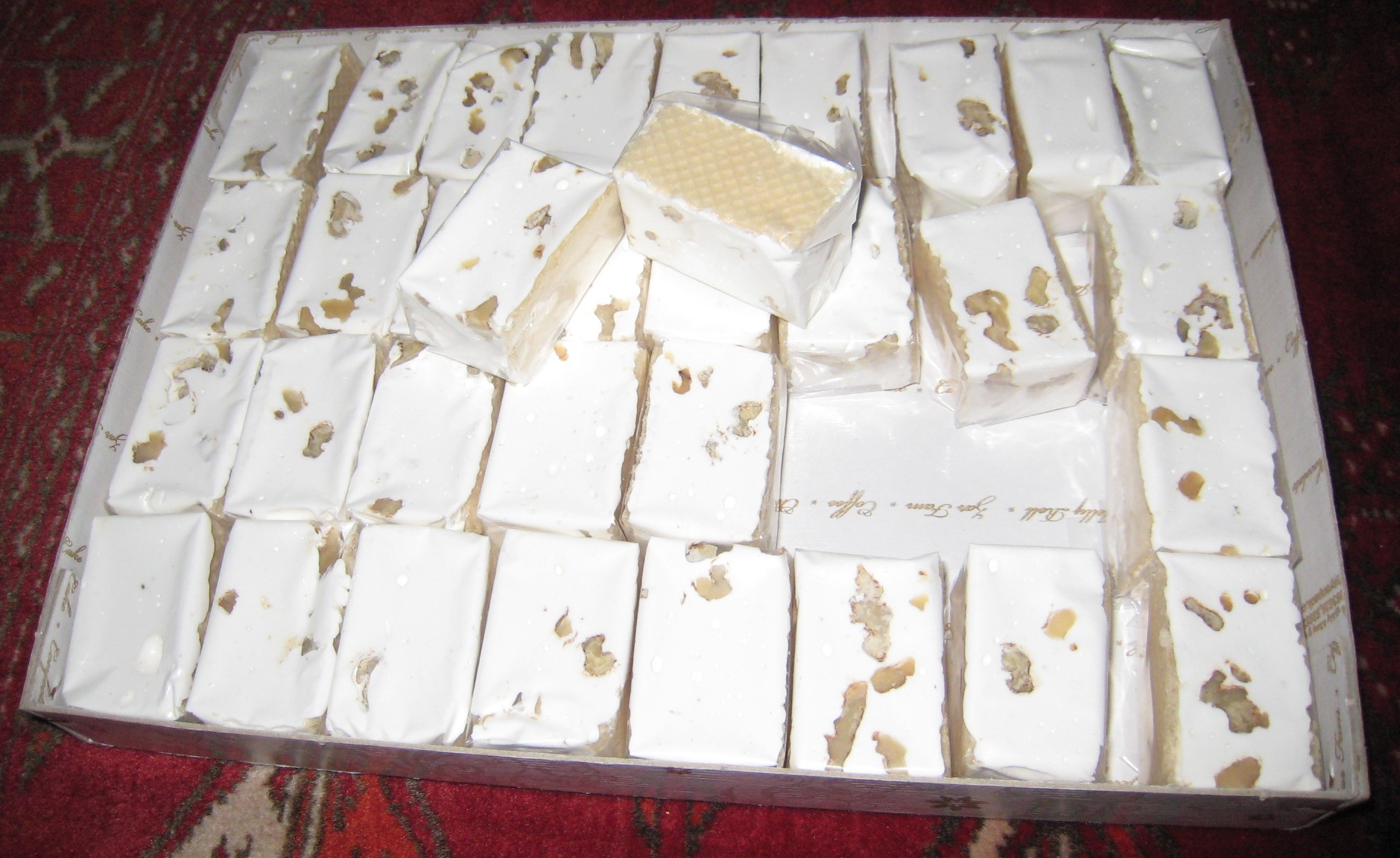 Iranian Nogha , a special kind of Gaz made mainly in the Azeri regions of Iran.